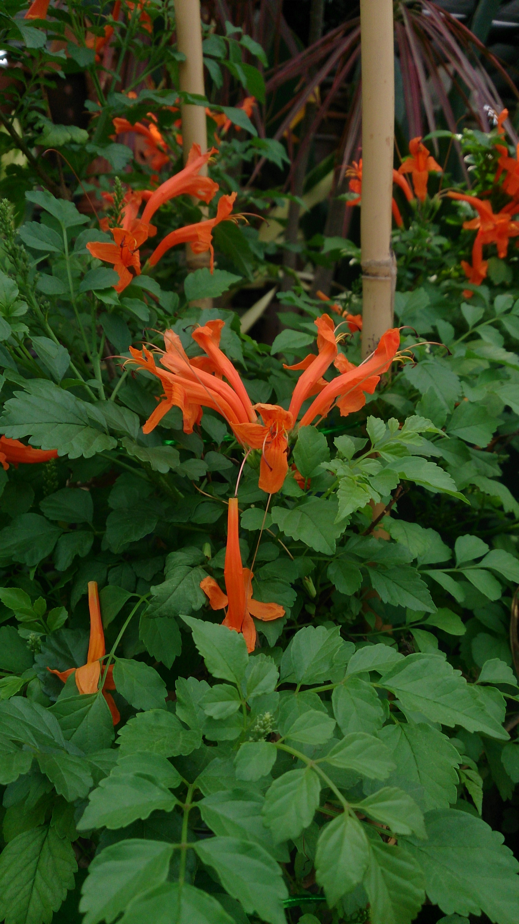 Tecomaria capensis. Common name: Cape Honeysuckle